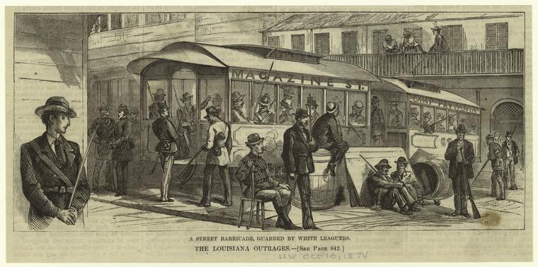 The Louisiana Outrages : a Street Barricade, guarded by White Leaguers. (1874) Engraving showing barricade made of streetcars (horse trams) during the street battle between the White Leagers and the Metropolitans in New Orleans.